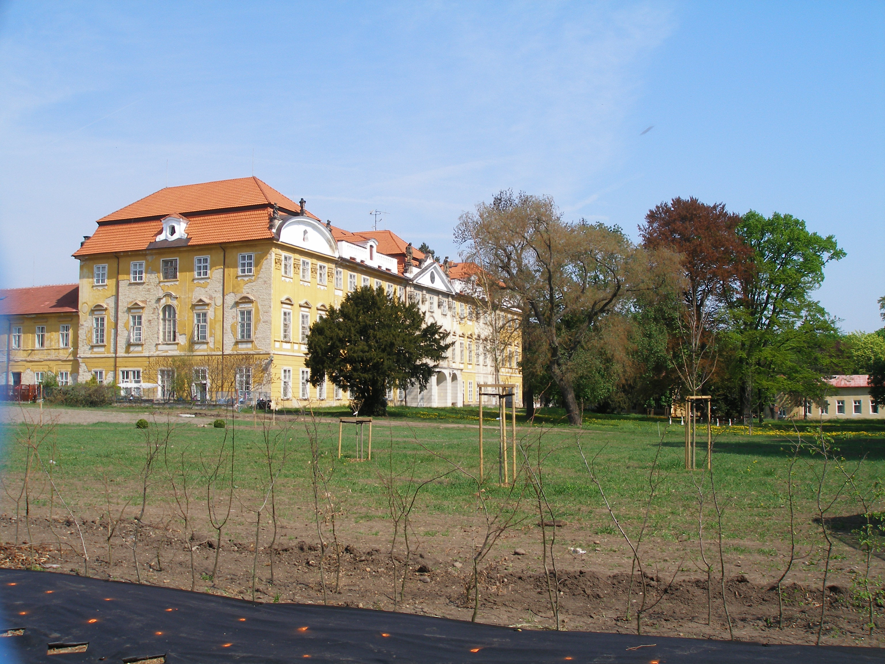 Castle in Horní Beřkovice (view from the park).